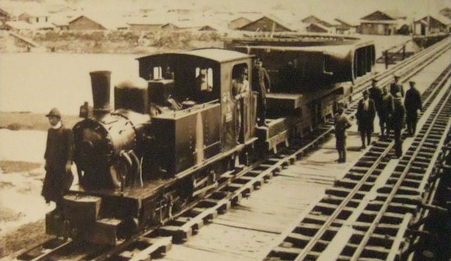 Kamaishi_Mine_Railway